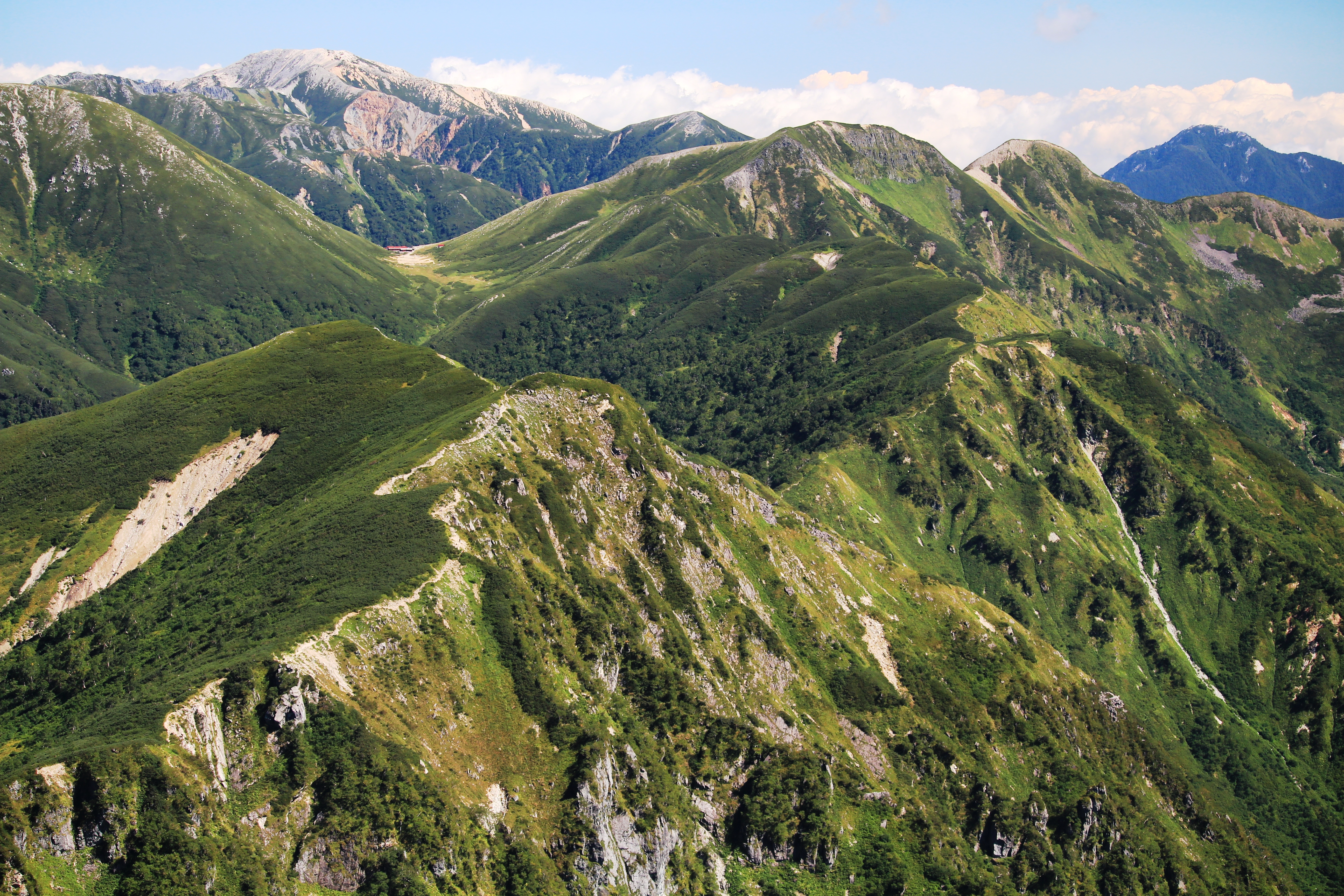 Mount Noguchigoro and Mount Momisawa seen from Mount Nuedo in Hida Mountains, Japan.